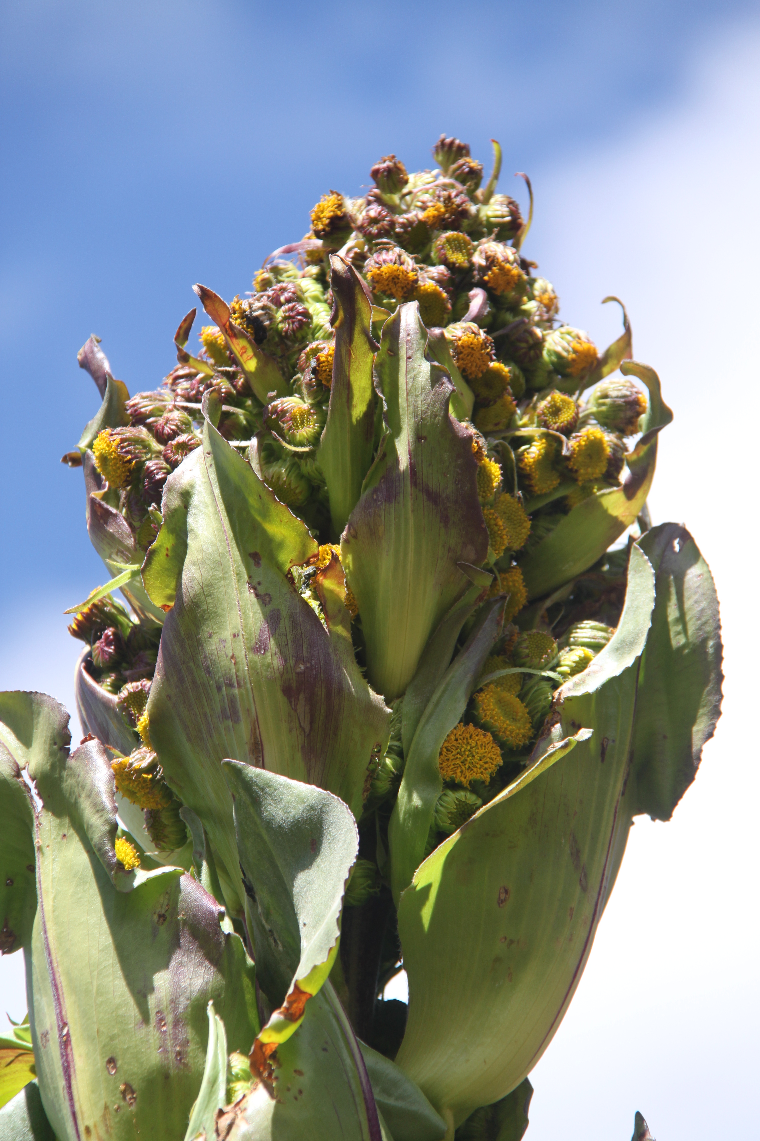 Synflorescence of the giant groundsel Dendrosenecio keniodendron, photographed near Shipton's hut, Sirimon route, Mount Kenya, at 4200 m altitude